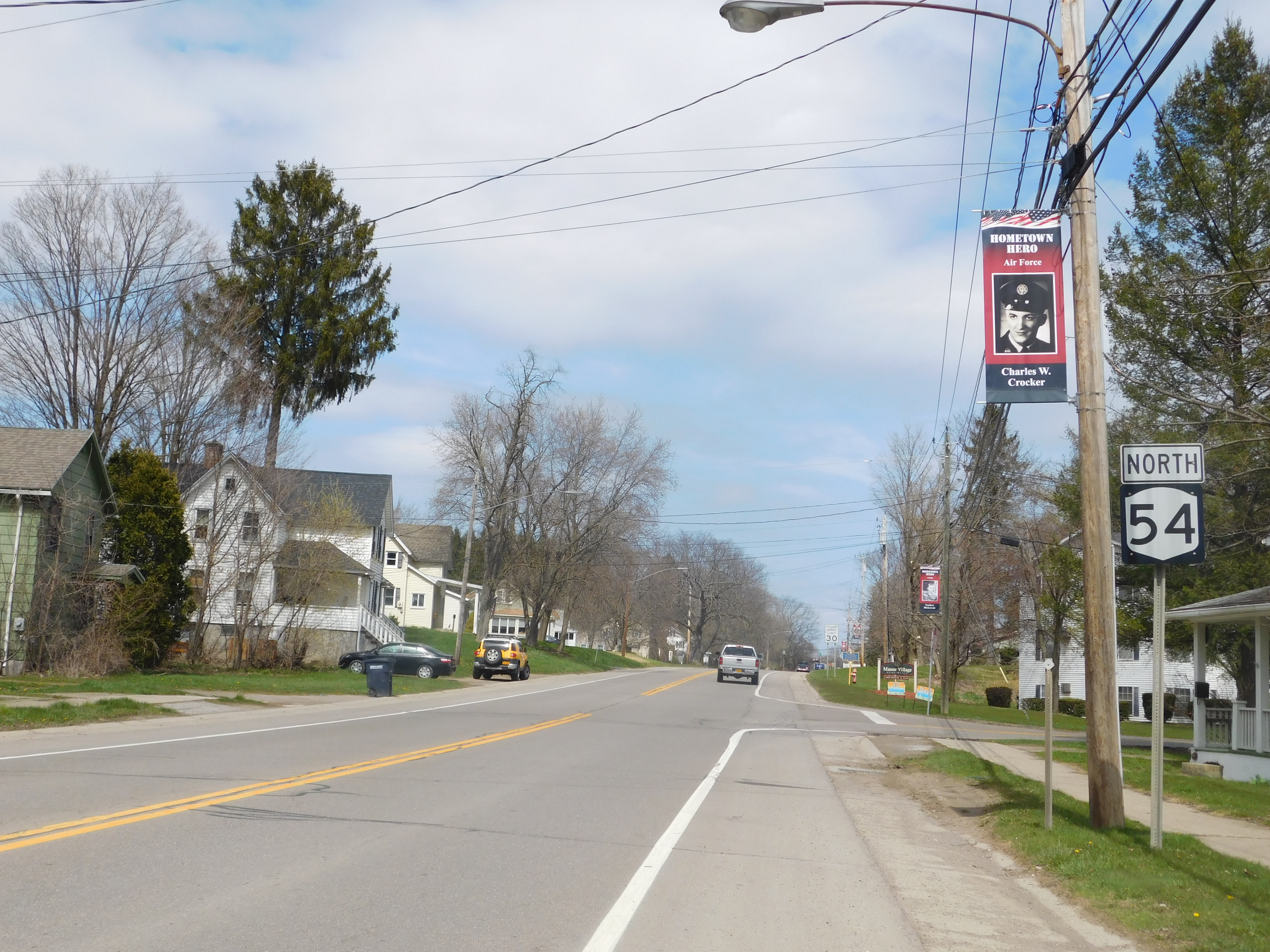 New York State Route 54 northbound in Bath, New York.